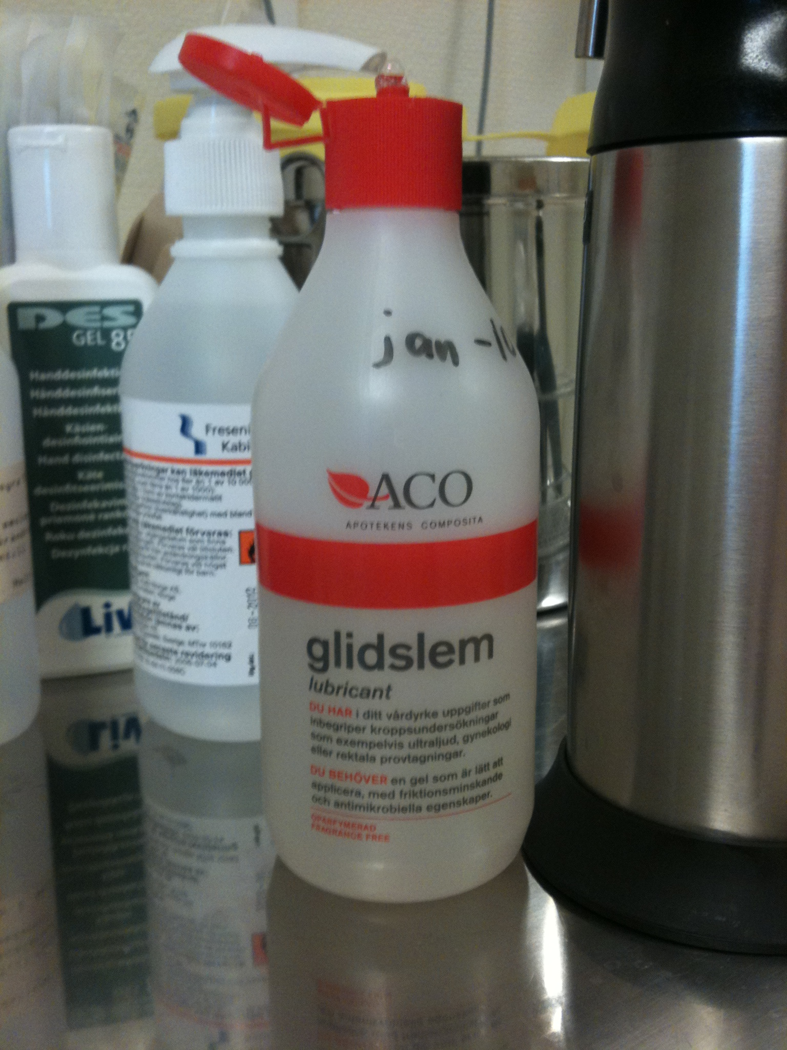 Lubricant for medical care purpouses